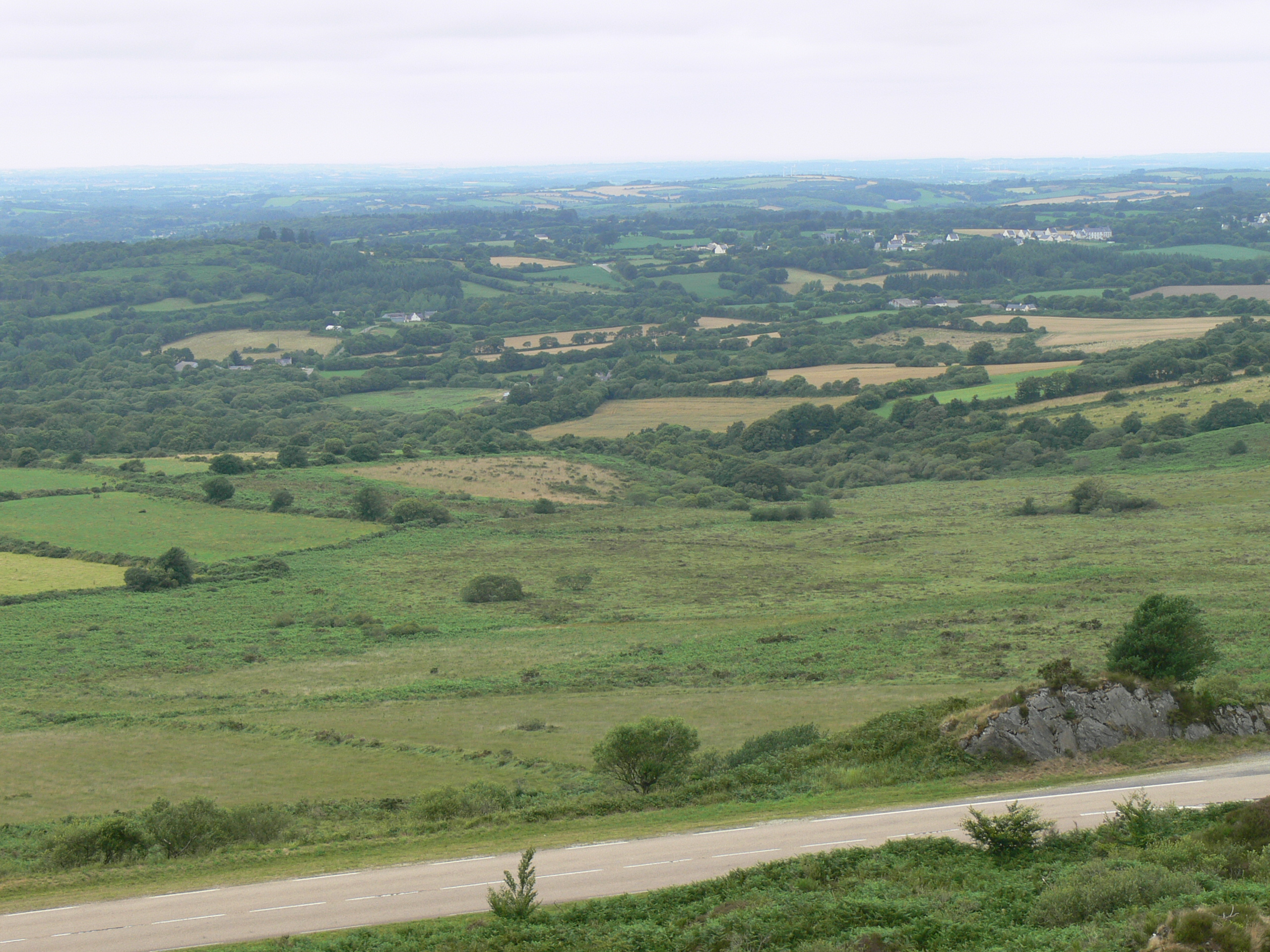 Panorama, from "Roc Trévézel" (ou Roc'h Trevezel in Bretagne (Summer 2010), second upper point in Britany